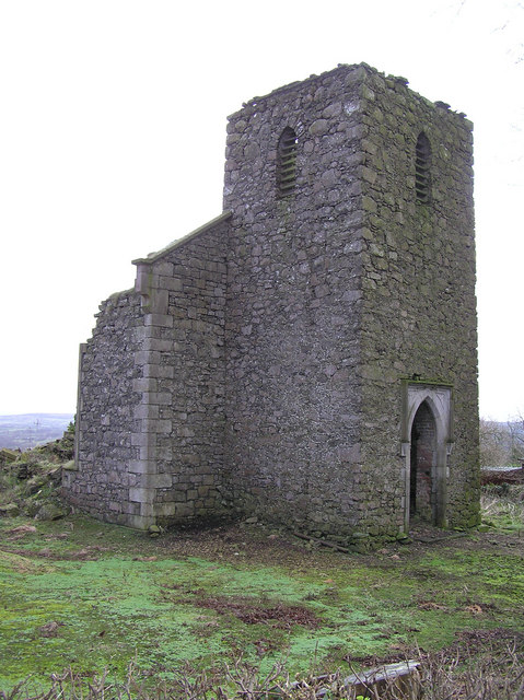 Ballyeaston old church It is located close to the village centre.